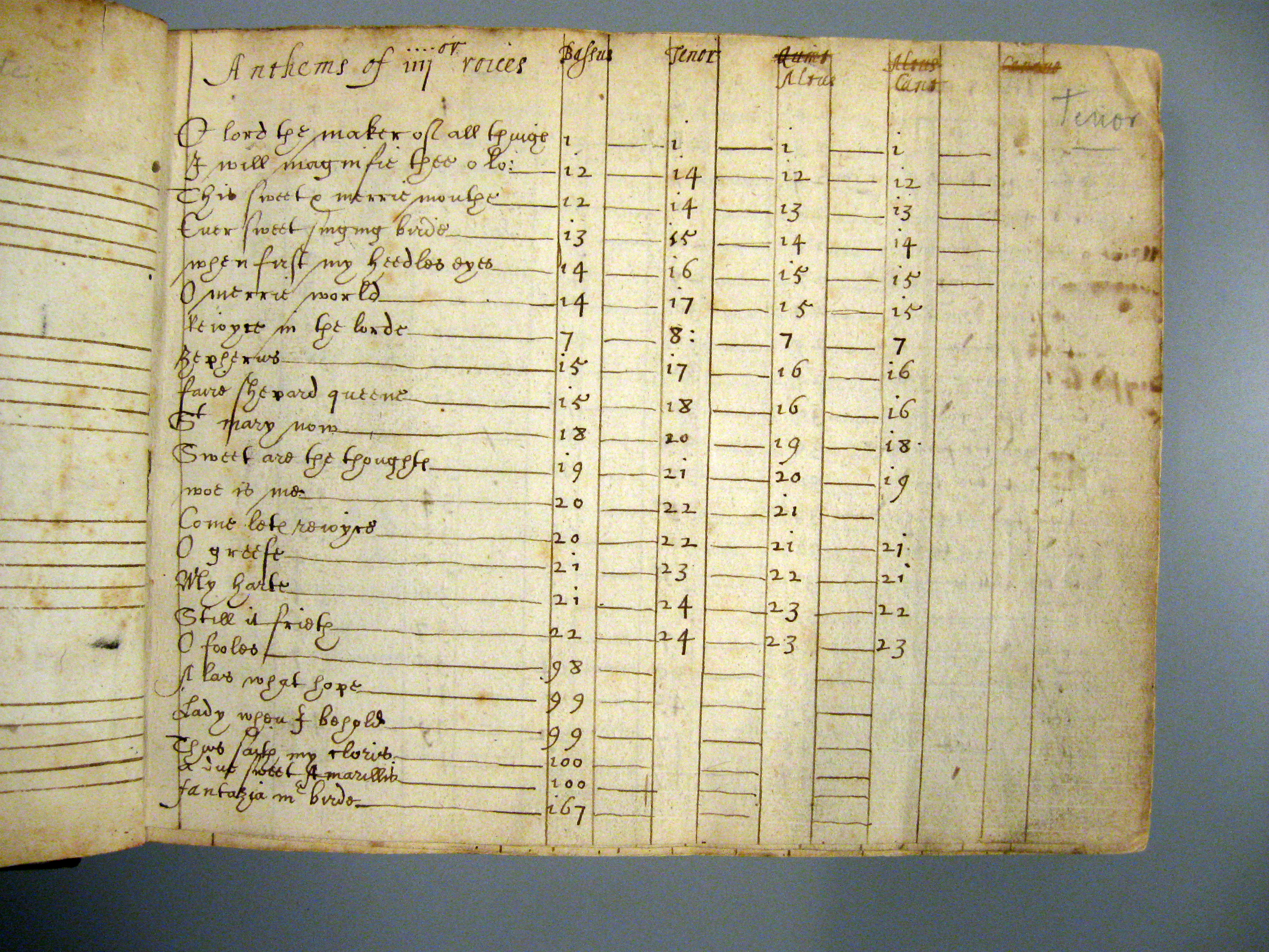 Table of contents from Drexel 4182, a 17th-century music manuscript housed in the Music Division of the New York Public Library